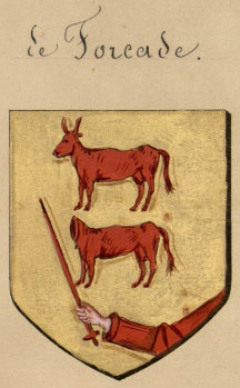 Coat of Arms: Étienne de Forcade de La Grézère, circa 1789.